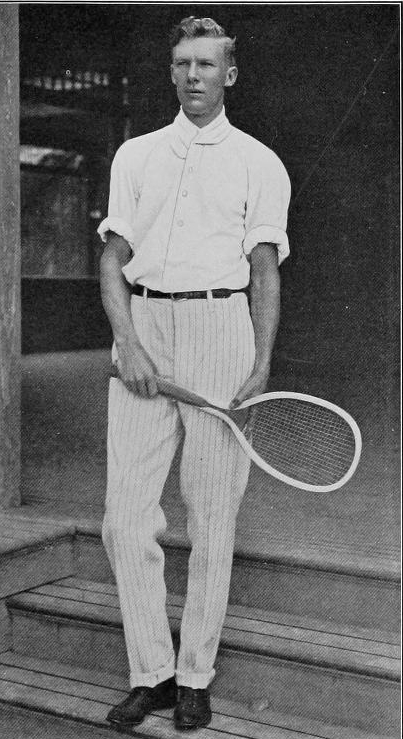 American male tennis player Malcolm Whitman